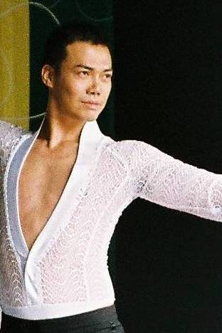 Close crop of image of Michael Tse dancing at TVBS-Europe's Happy Family Gala 2008. Taken in car park opposite main entrance of London's Brent Cross shopping centre